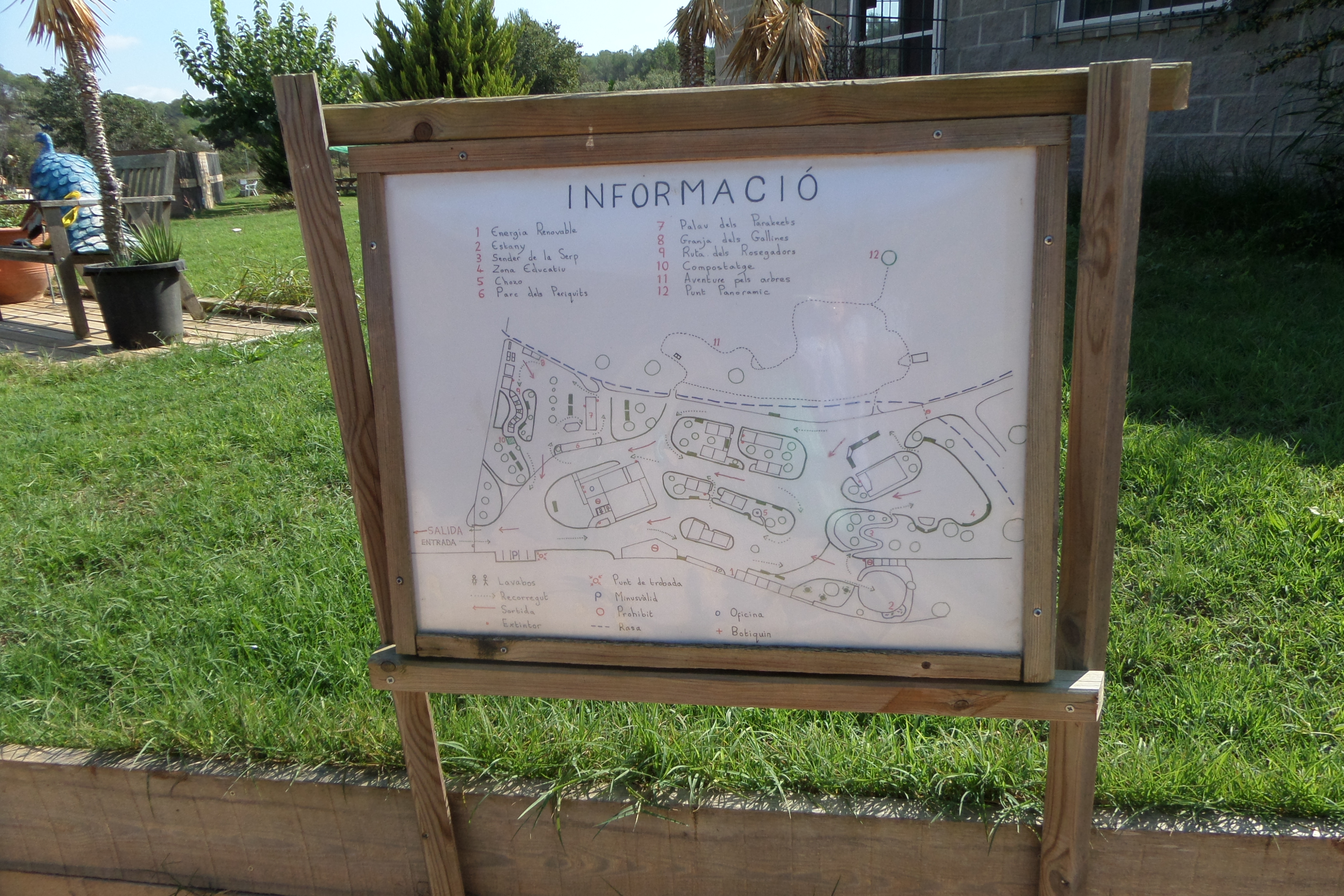 Picture of a map that can be found in the bird park El Jardí dels Ocells